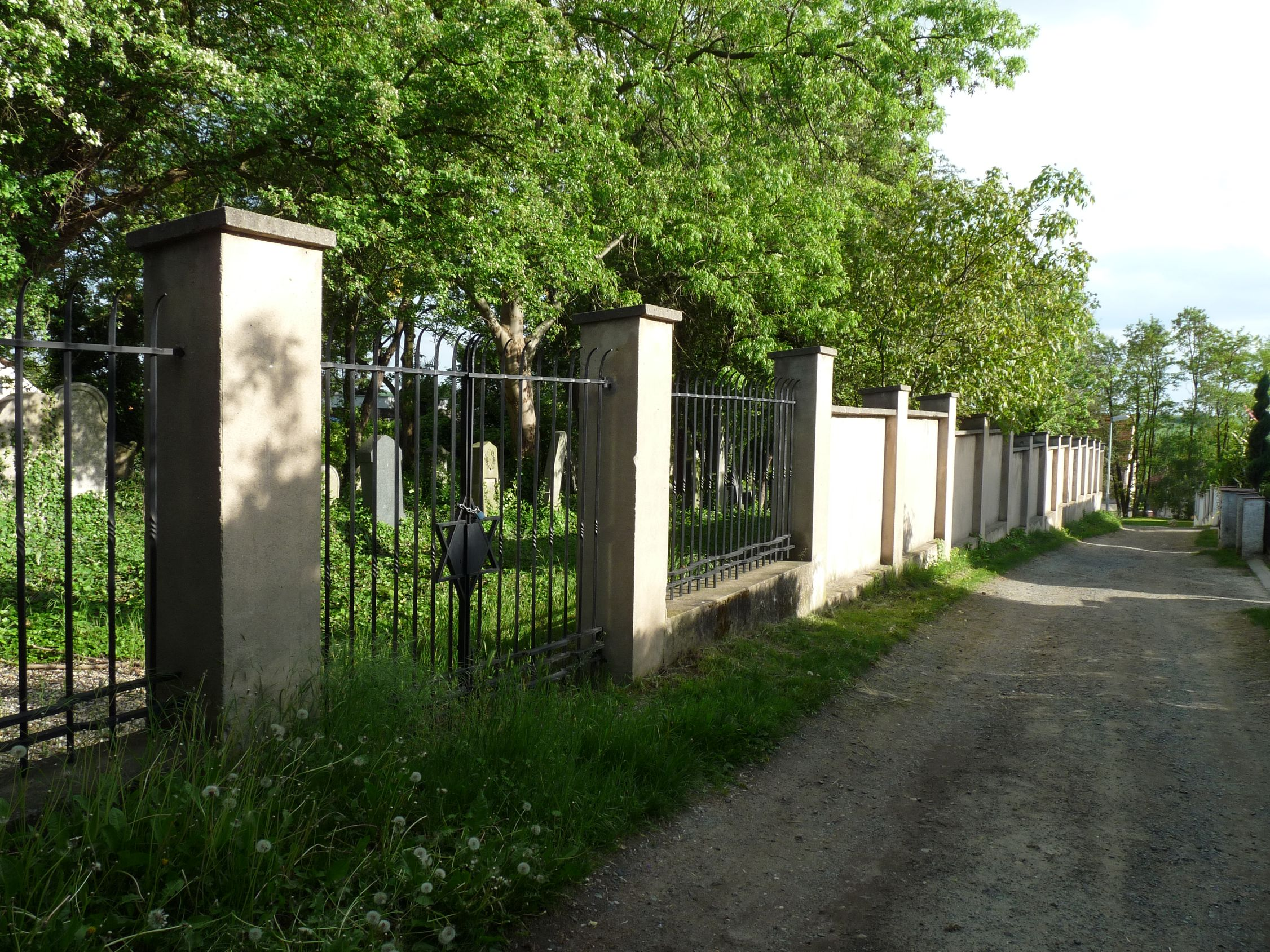 Jewish cemetery in the munucipality of Byšice, Mělník District, Central Bohemian Region, Czech Republic.